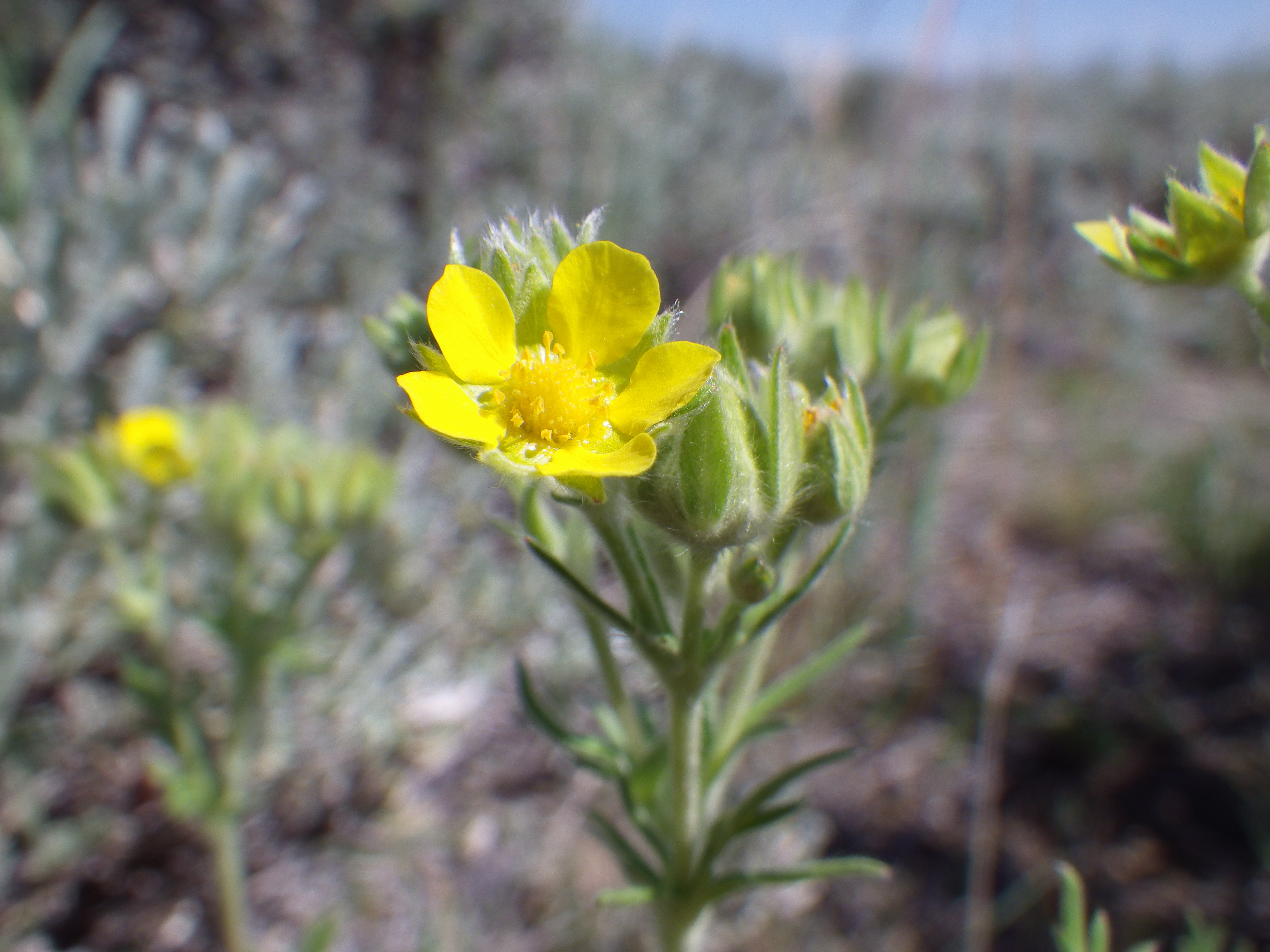 The pinnately compound leaves with tomentose under-surfaces and stiples that are highly dissected distinguish this perennial cinquefoil that is common to open arid settings such as in the sagebrush steppe.